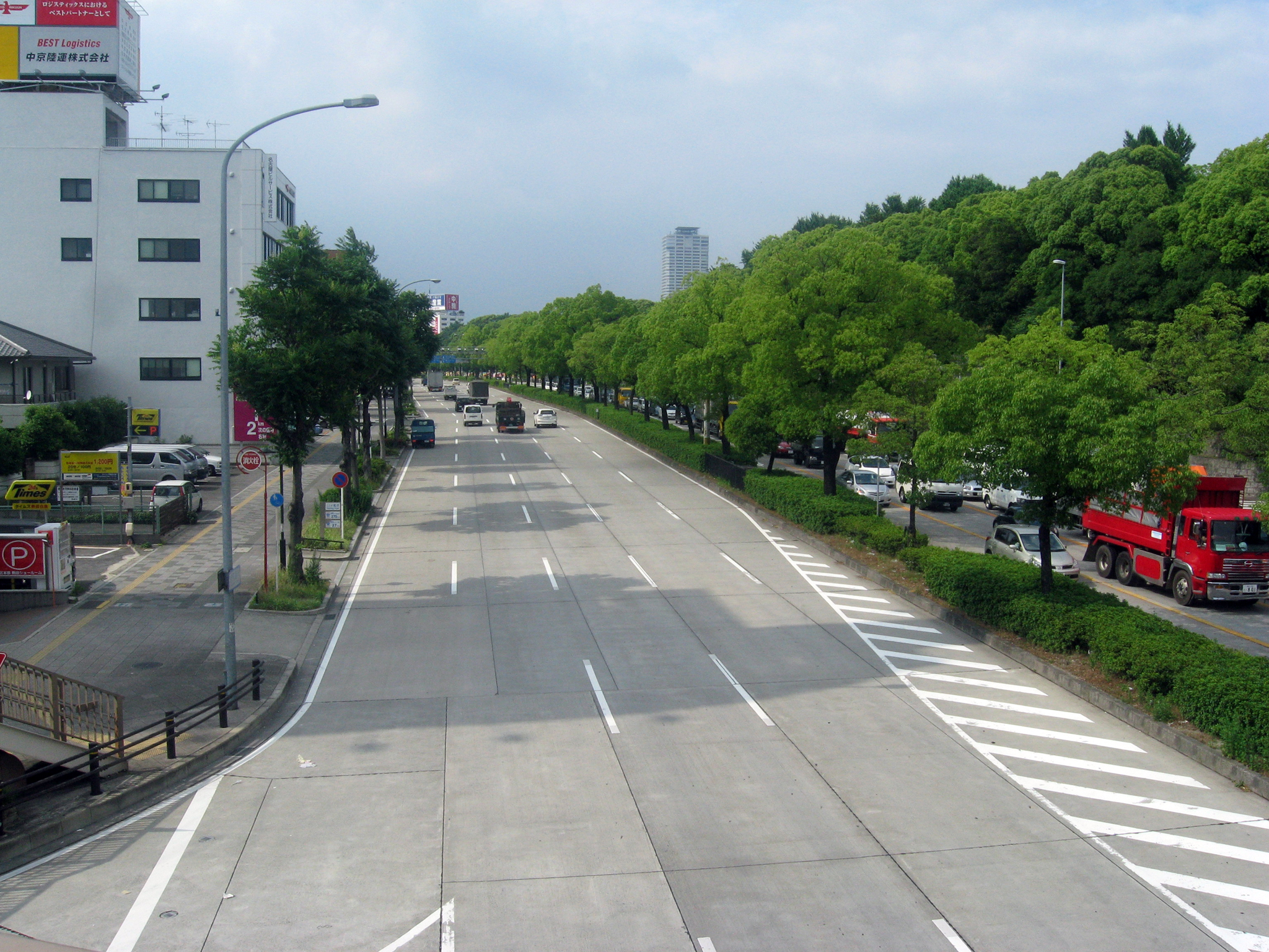 "Atsuta Jingu Minami(South)" Intersection (Starting point of Route 19, 22 & 247)